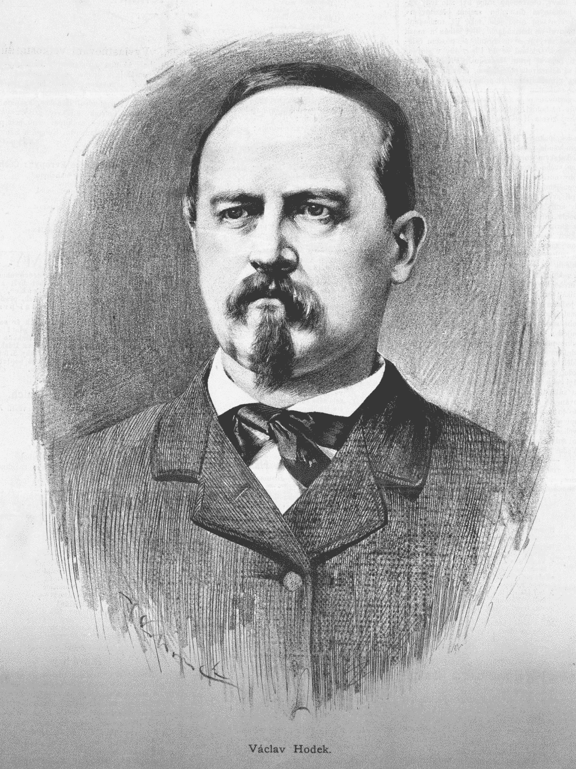 Portrait of Václav Hodek (1828-1886), revolutionary of 1848/9 and political prisoner, later a proofreader and newspaper editor.